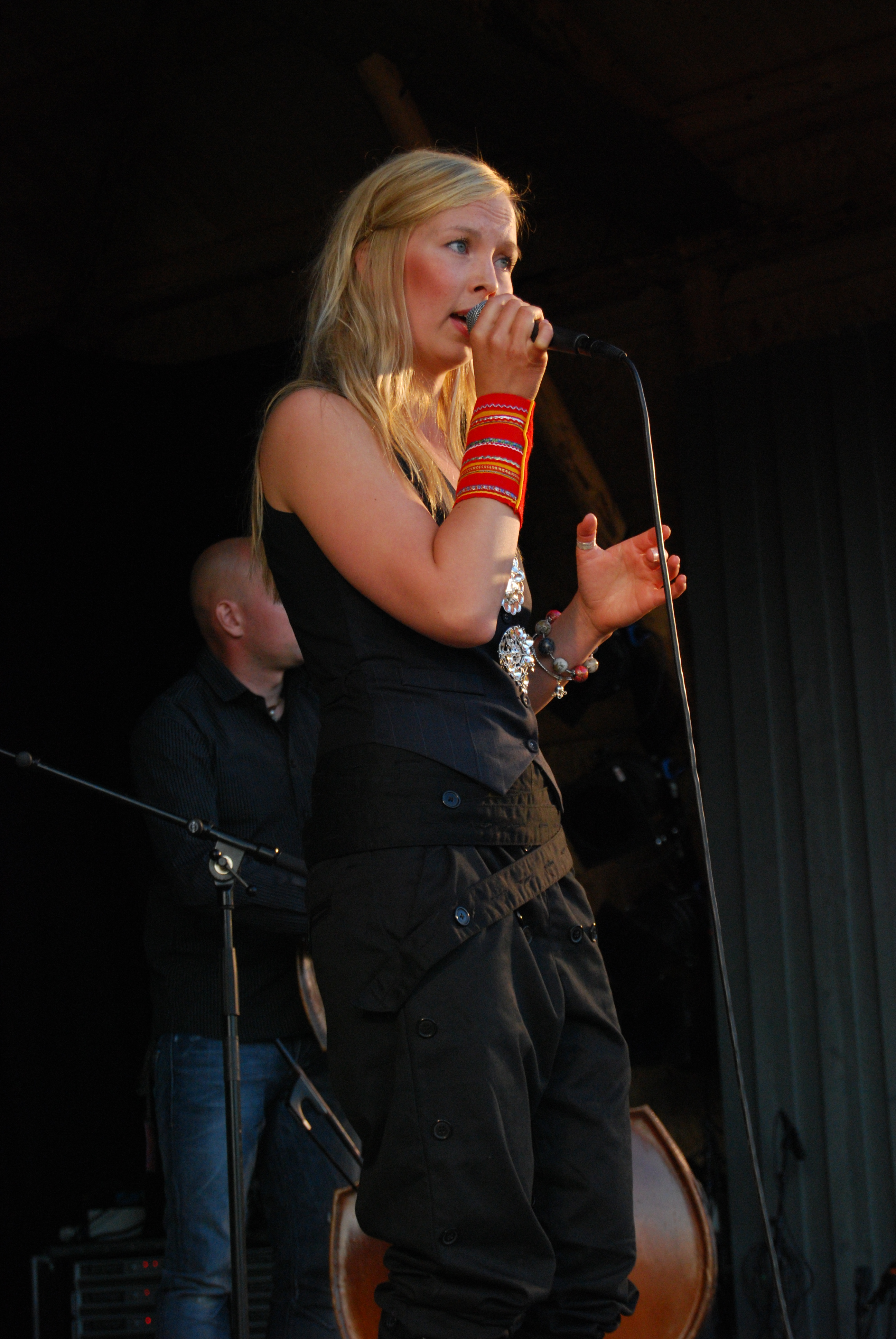 Musician Sofia Jannok on Márkomeannu, Norway.